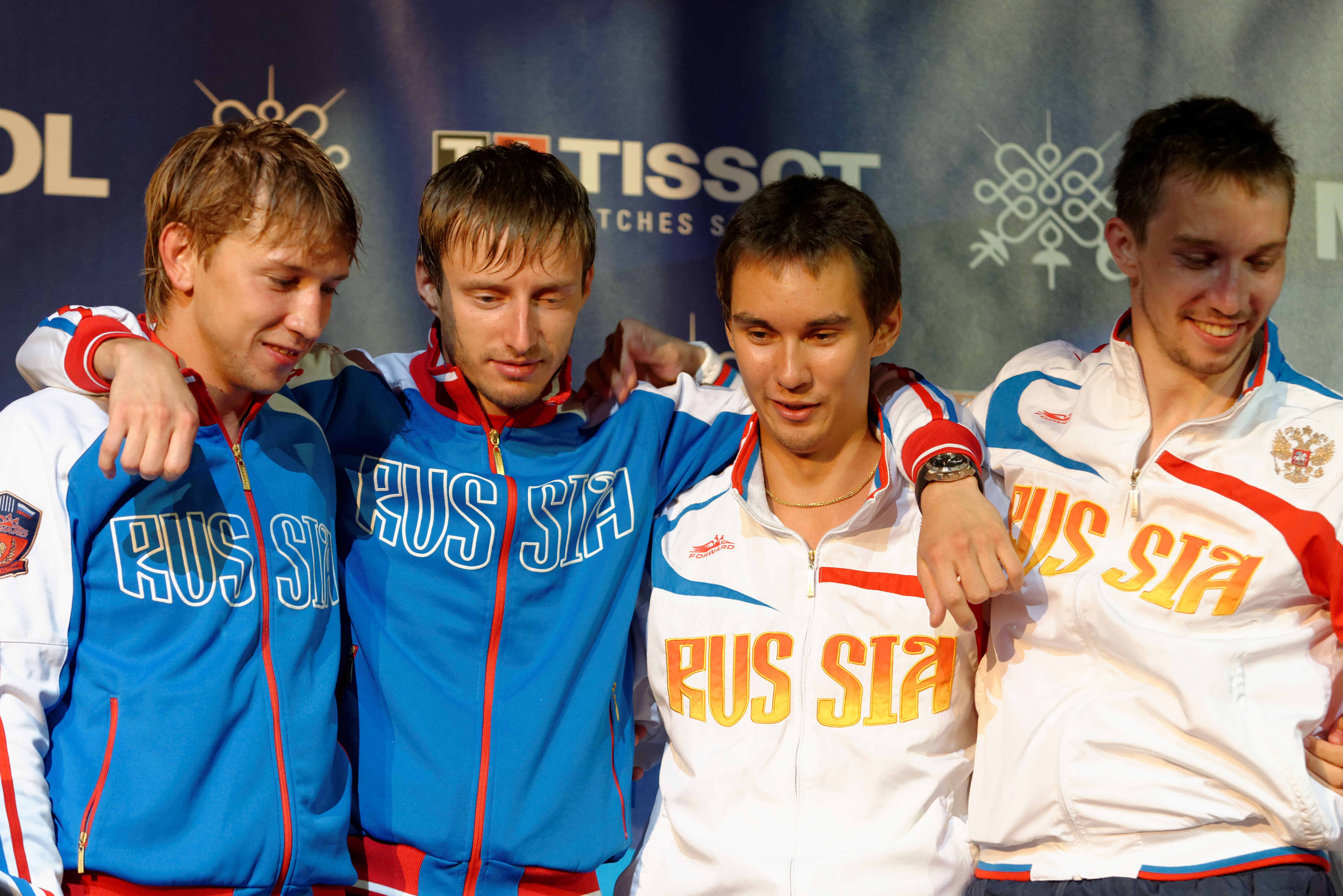 Russia men's sabre team (from left to right, Nikolay Kovalev, Veniamin Reshetnikov, Kamil Ibragimov, and Aleksey Yakimenko) stand on the podium of the 2013 World Fencing Championships 2013 at Syma Hall in Budapest, 10 August 2013.